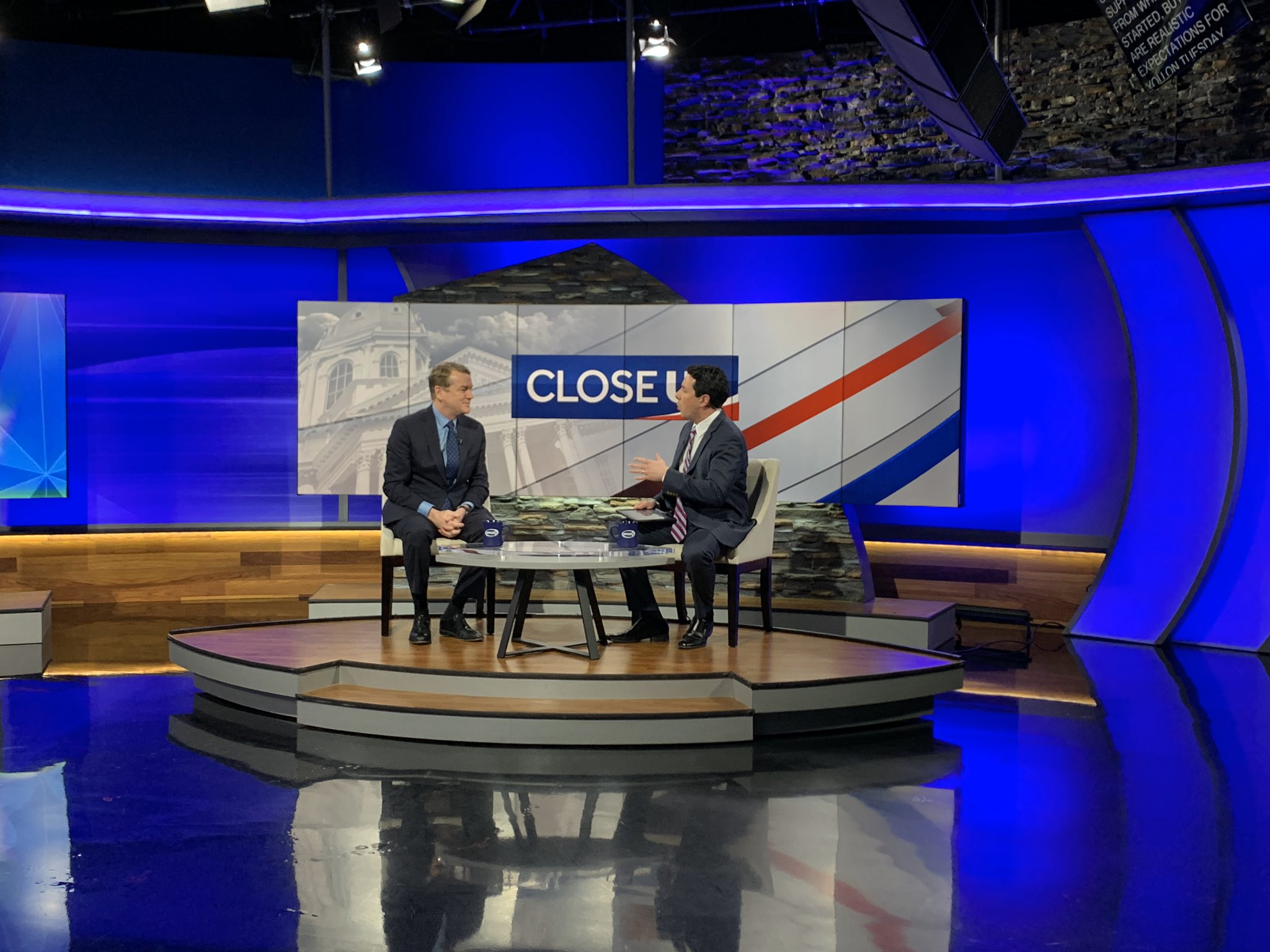 LIVE NOW: On air with @AdamSextonWMUR on @WMUR9 talking about the final 40 hours leading up to the #FITN primary